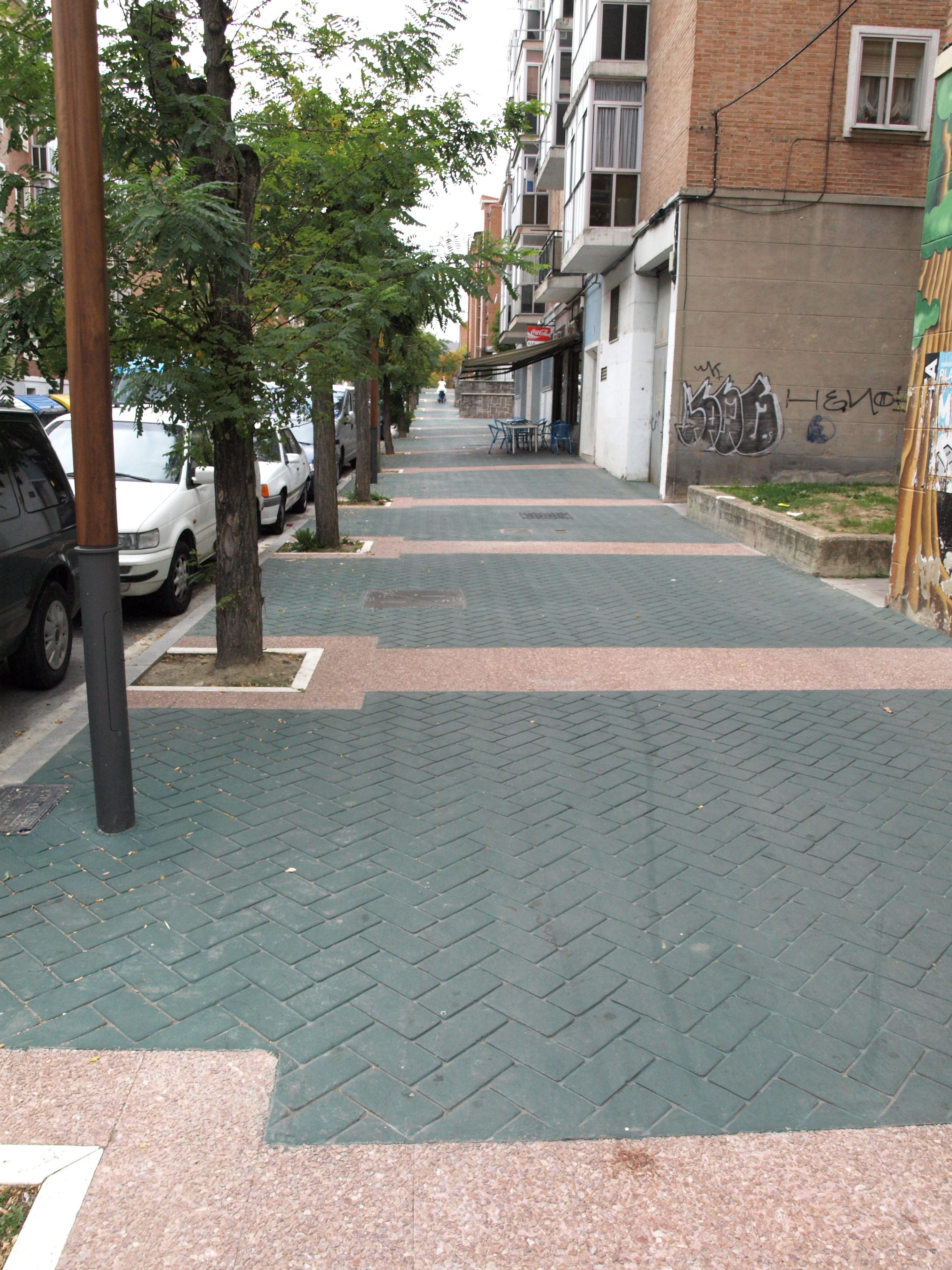 A street in Vitoria-Gasteiz, Basque Country, Spain. Black "tiles", in fact, are a monolithic slab of mastic asphalt concrete.